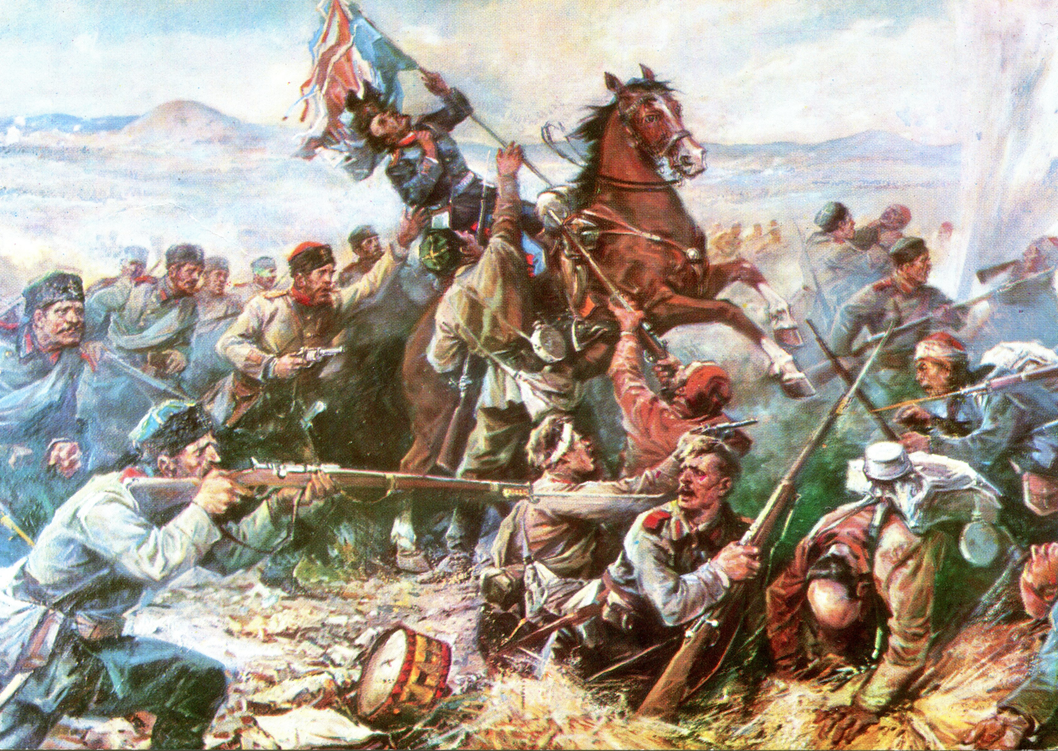 Defending of the banner of Samara and death of Lt.-colonel Kalitin during the battle of Stara Zagora, July 1877